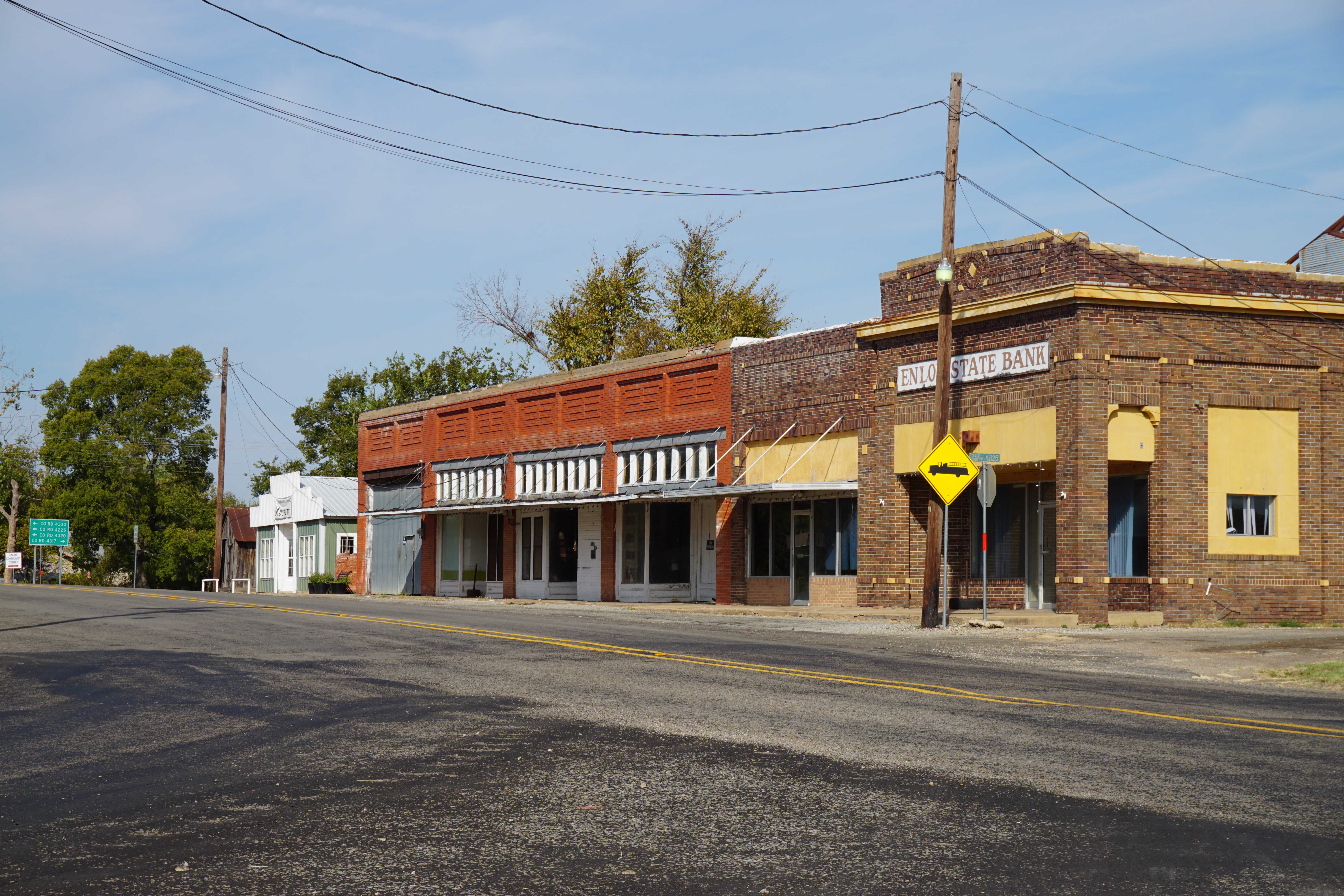 Farm to Market Road 198 in Enloe, Texas (United States).